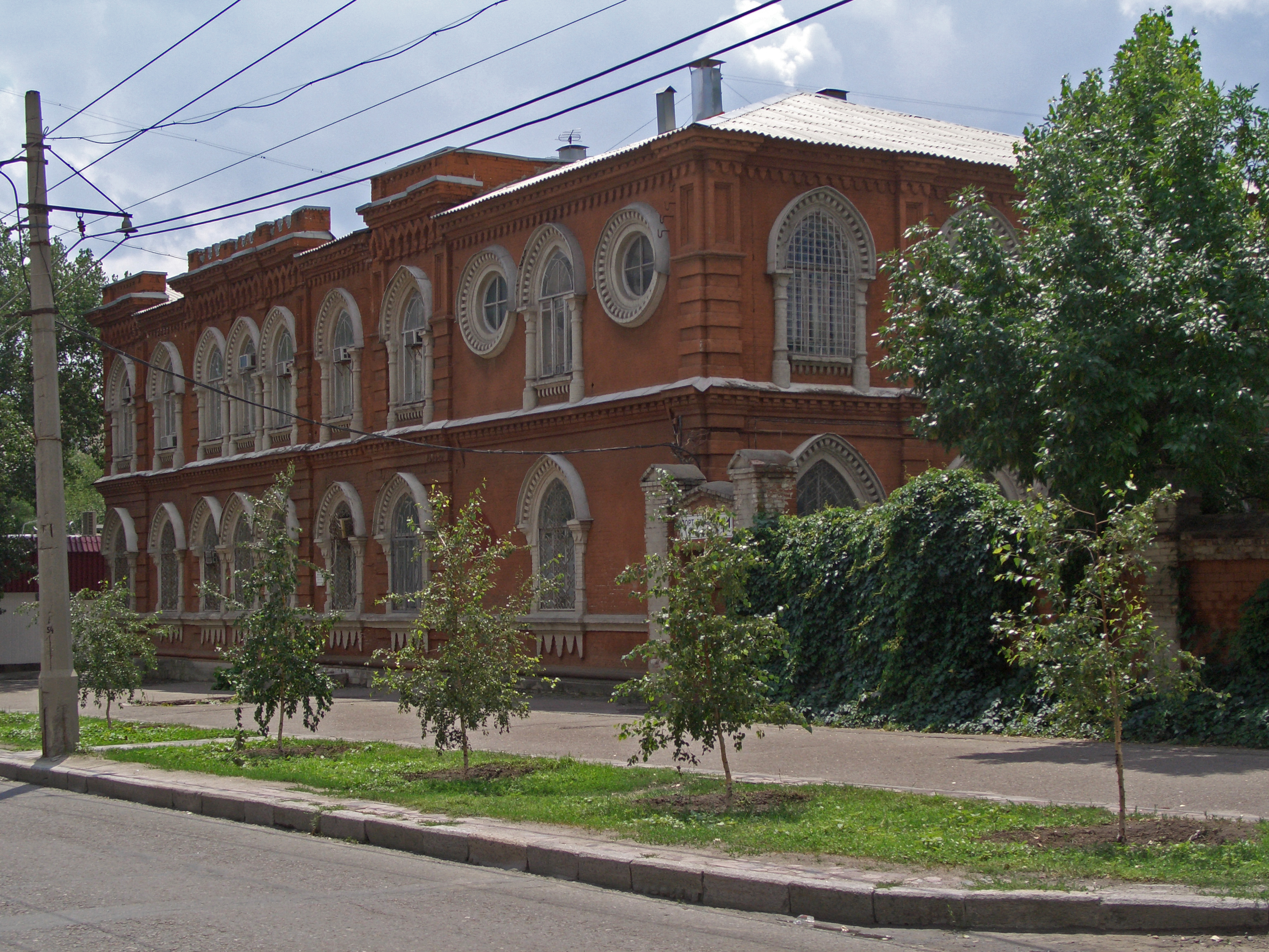 Volgograd Synagogue (1911).